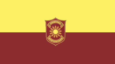 Flag of the former Kukurečani Municipality, Macedonia.